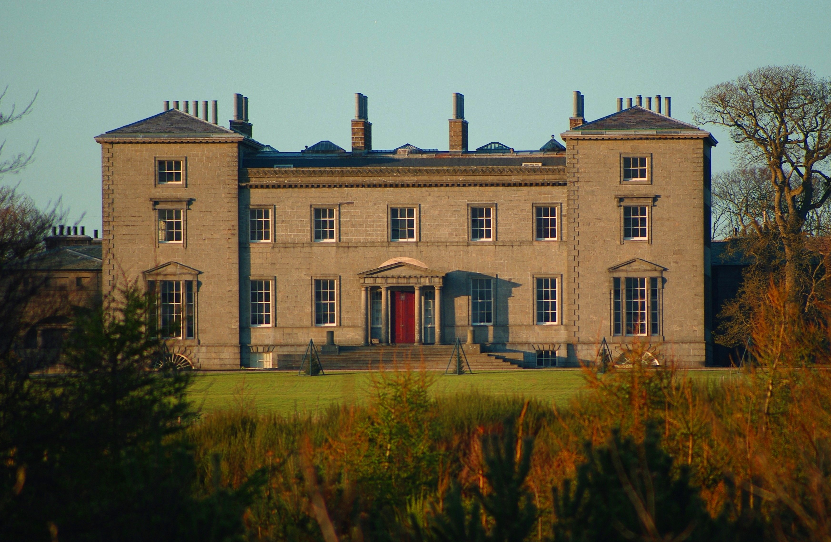 Cairness House, Lonmay, Aberdeenshire, south front